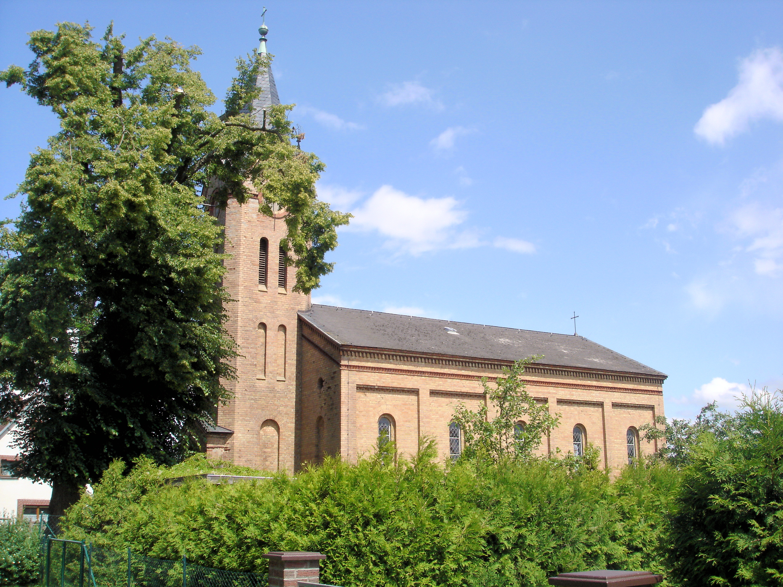 Church in Leussow, Mecklenburg, Germany